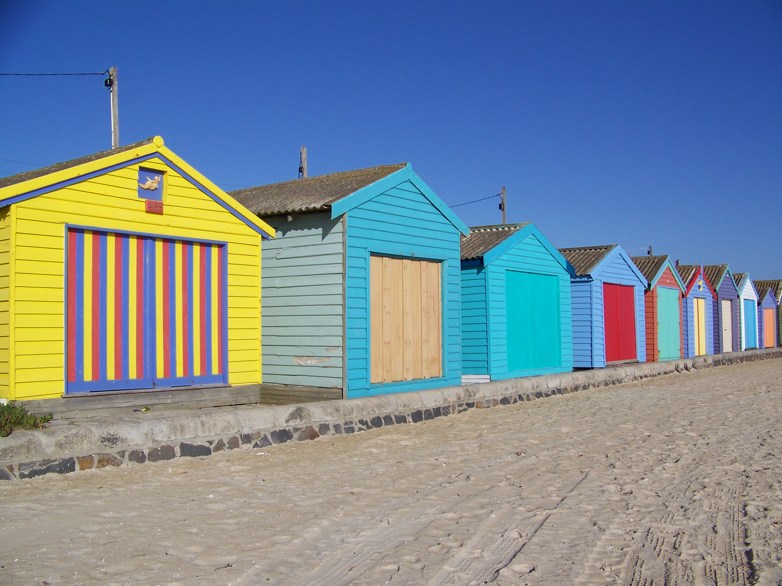 Beach huts in Aspendale, Victoria